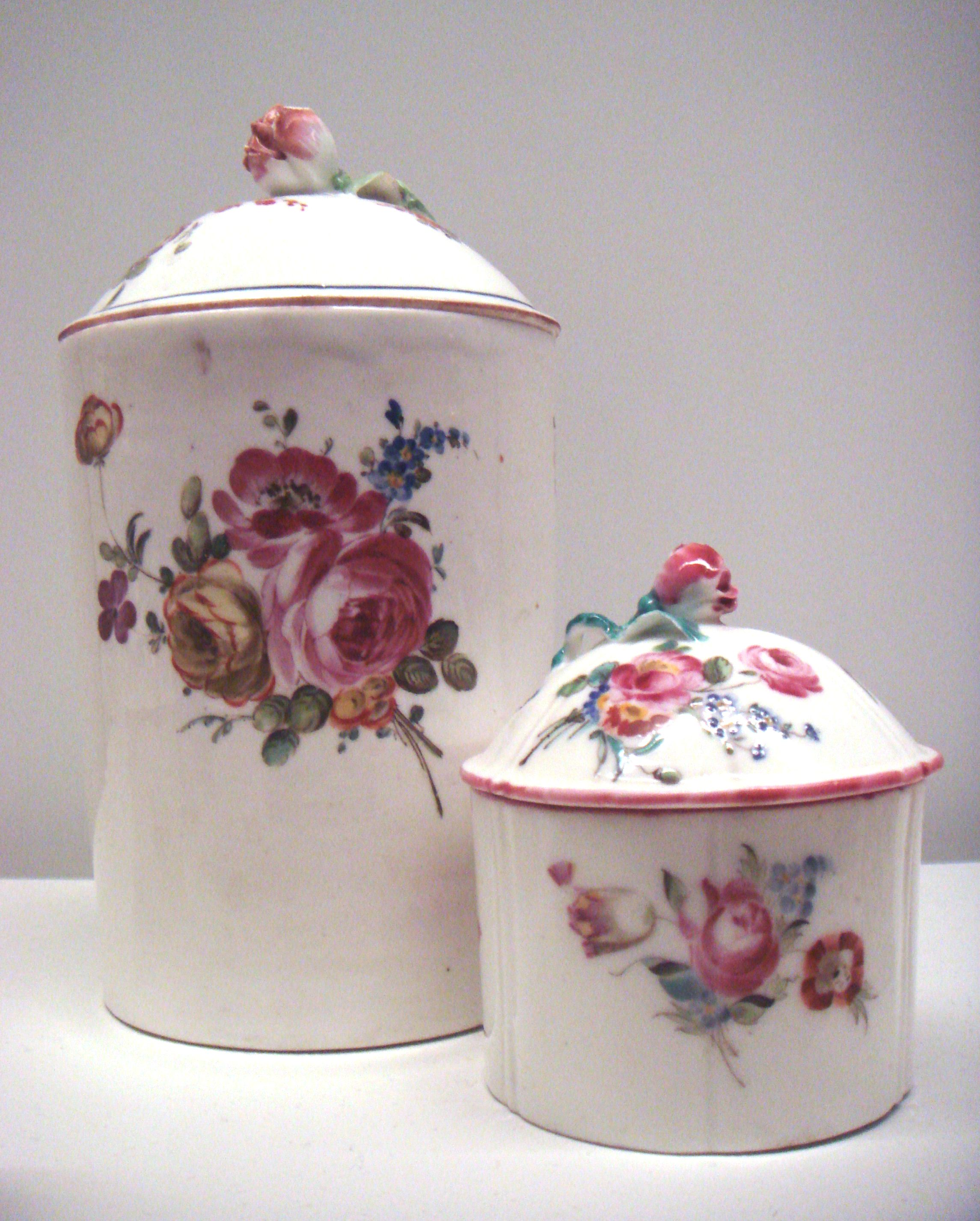 Mennecy_soft_porcelain_circa_1750